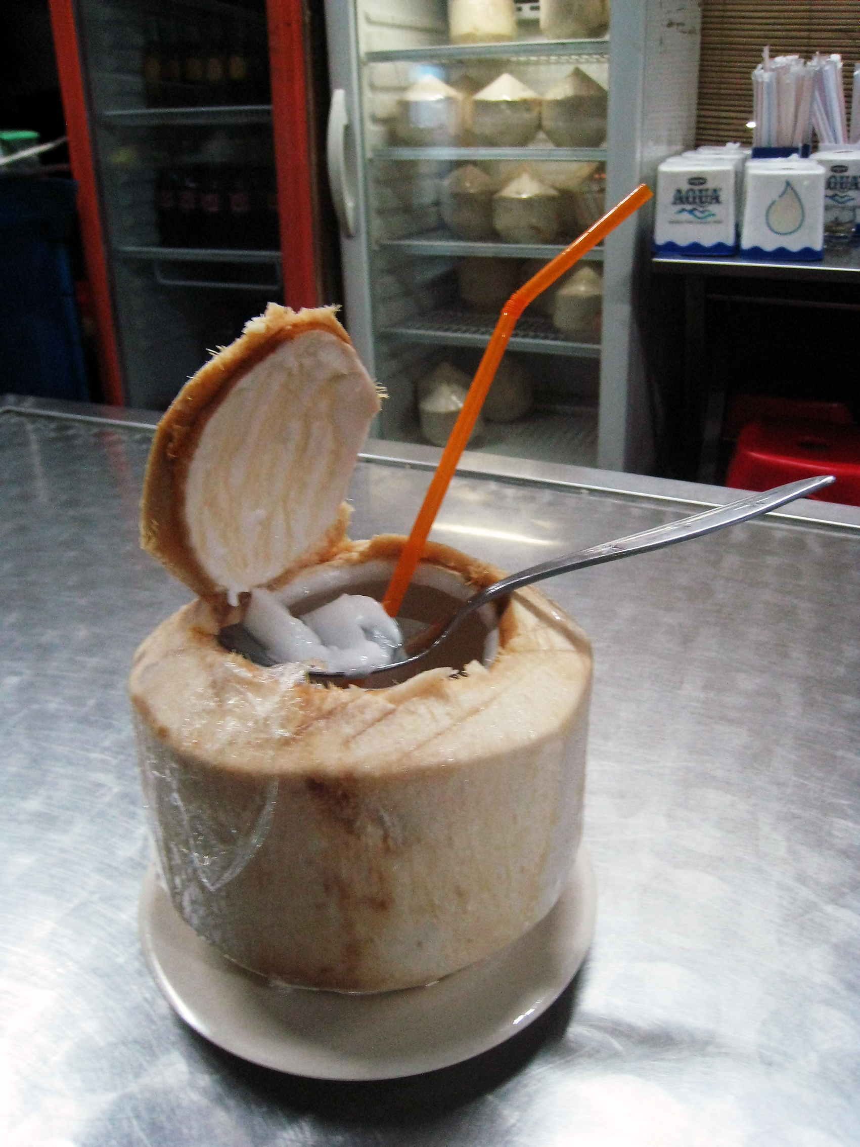 Es kelapa muda, or Indonesian chilled young coconut drink served straight from coconut fruit. Consist of coconut water, young soft coconut flesh, and sugar or cocopandan syrup. Chilled coconuts are shown in the background inside the chiller. Served in a foodstall in Jakarta, Indonesia.